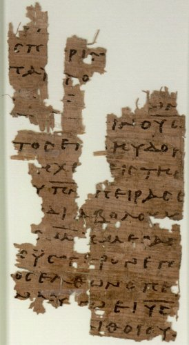 Papyrus 101 recto